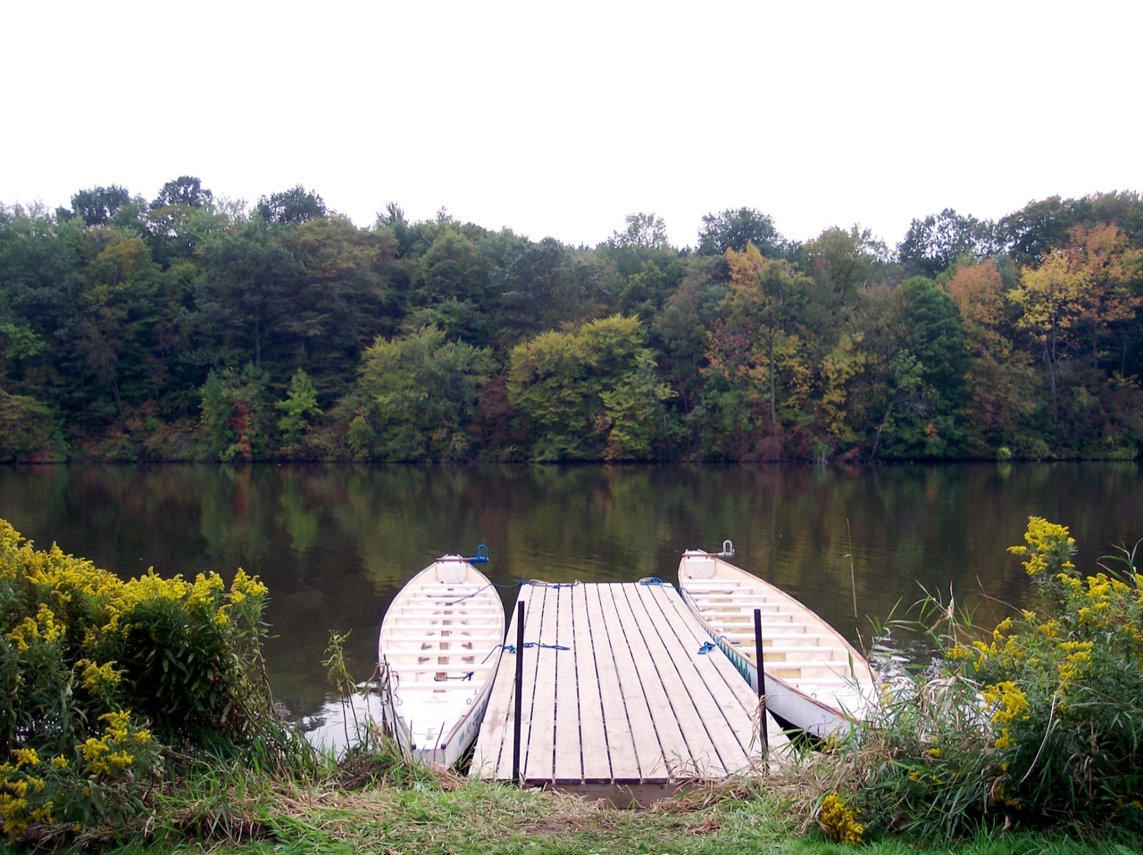 Stratford Dragon Boat Festival in Ontario, Canada @ September 23, 2006 [Photo by Mom